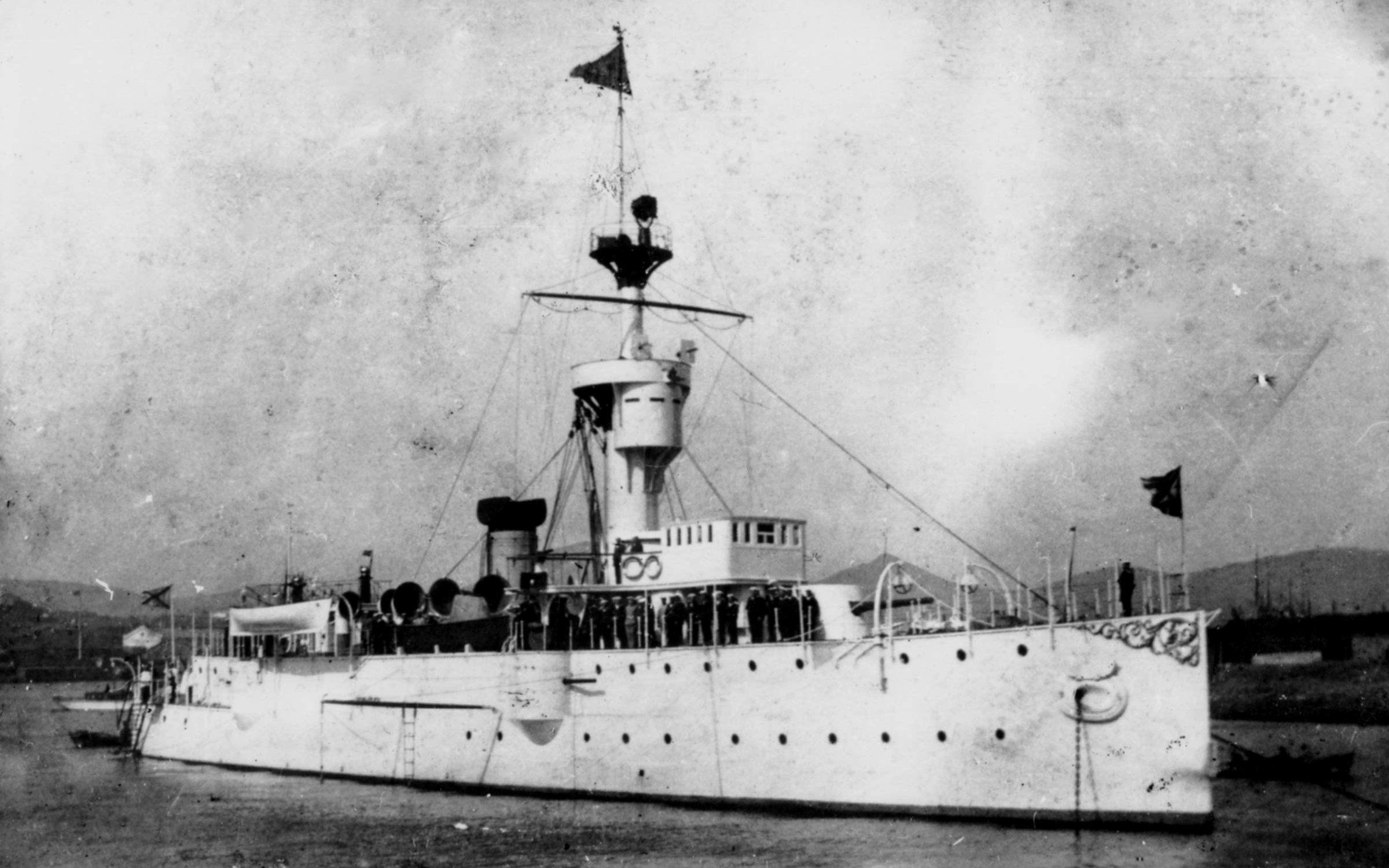 Imperial Russian gunboat Gilyak.